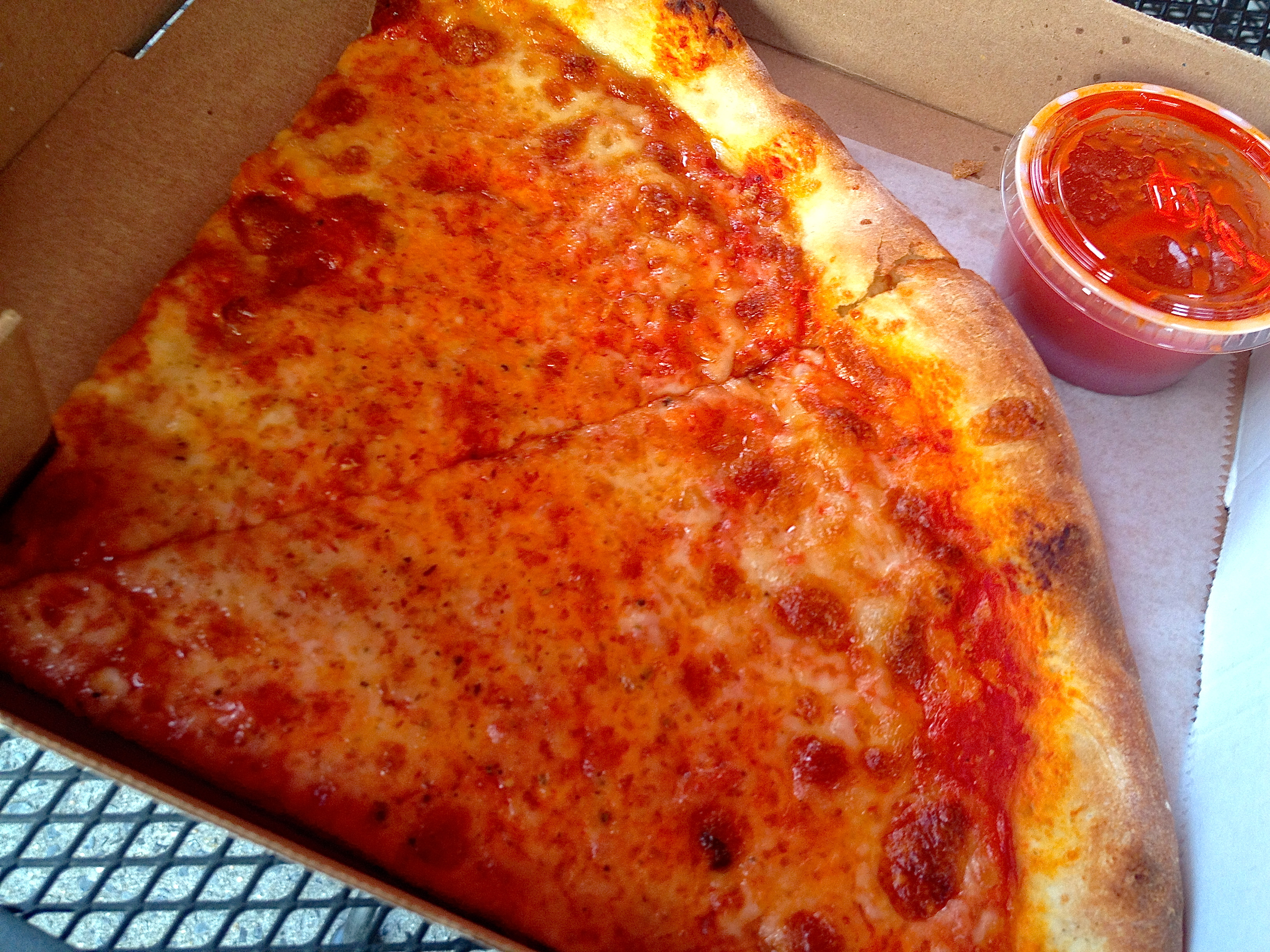 Two slices of pizza from a Brooklyn pizzeria with a plastic container of sauce.